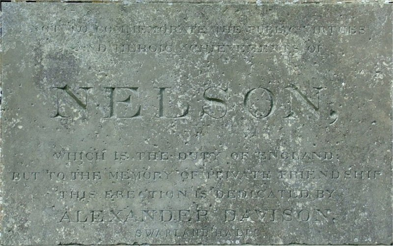 Nelson Memorial - Swarland - Northumberland - England